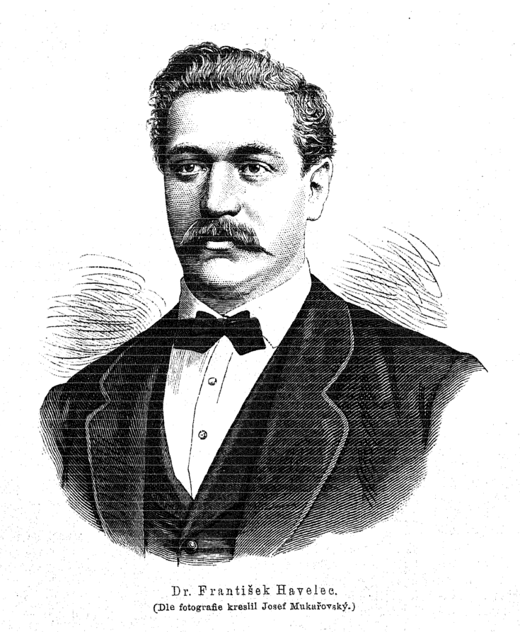 Portrait of František Havelec (1837-1879), Czech lawyer and politician